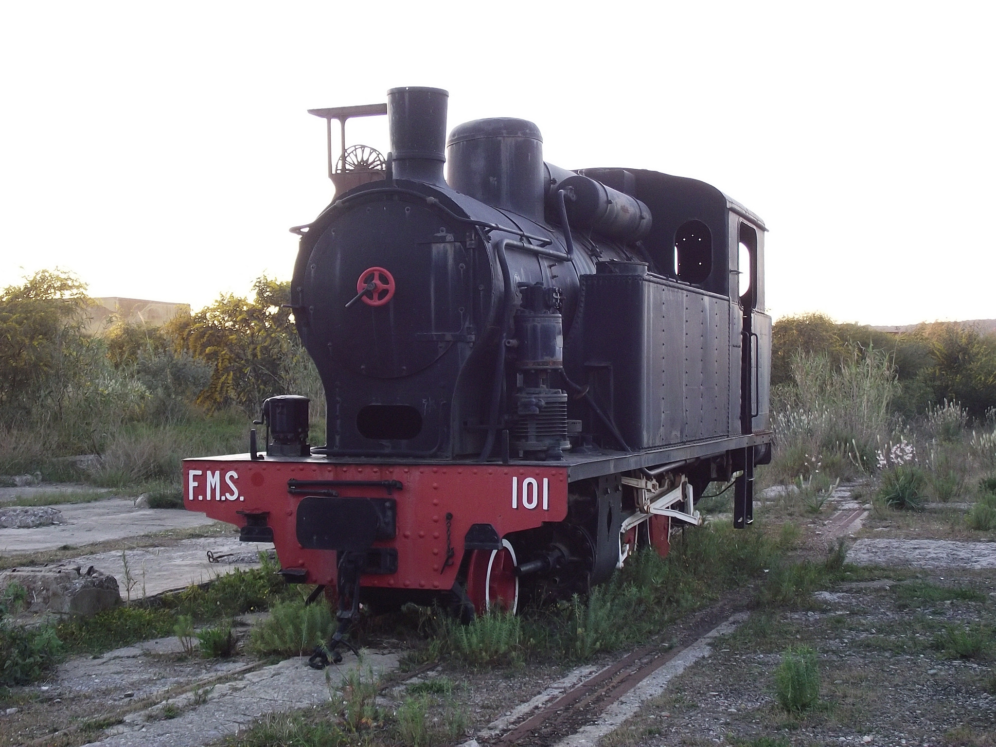 Steam locomotive 101 of Ferrovie Meridionali Sarde, built in 1925 by Breda, now monument inside the Serbariu coalmine in Carbonia, Sardinia, Italy